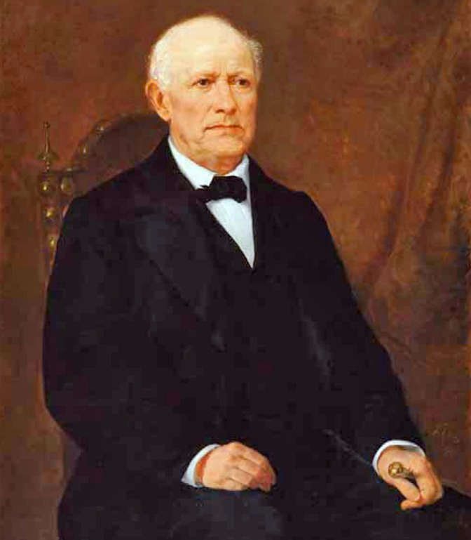 José Farinha Relvas de Campos (c. 1790-1865)